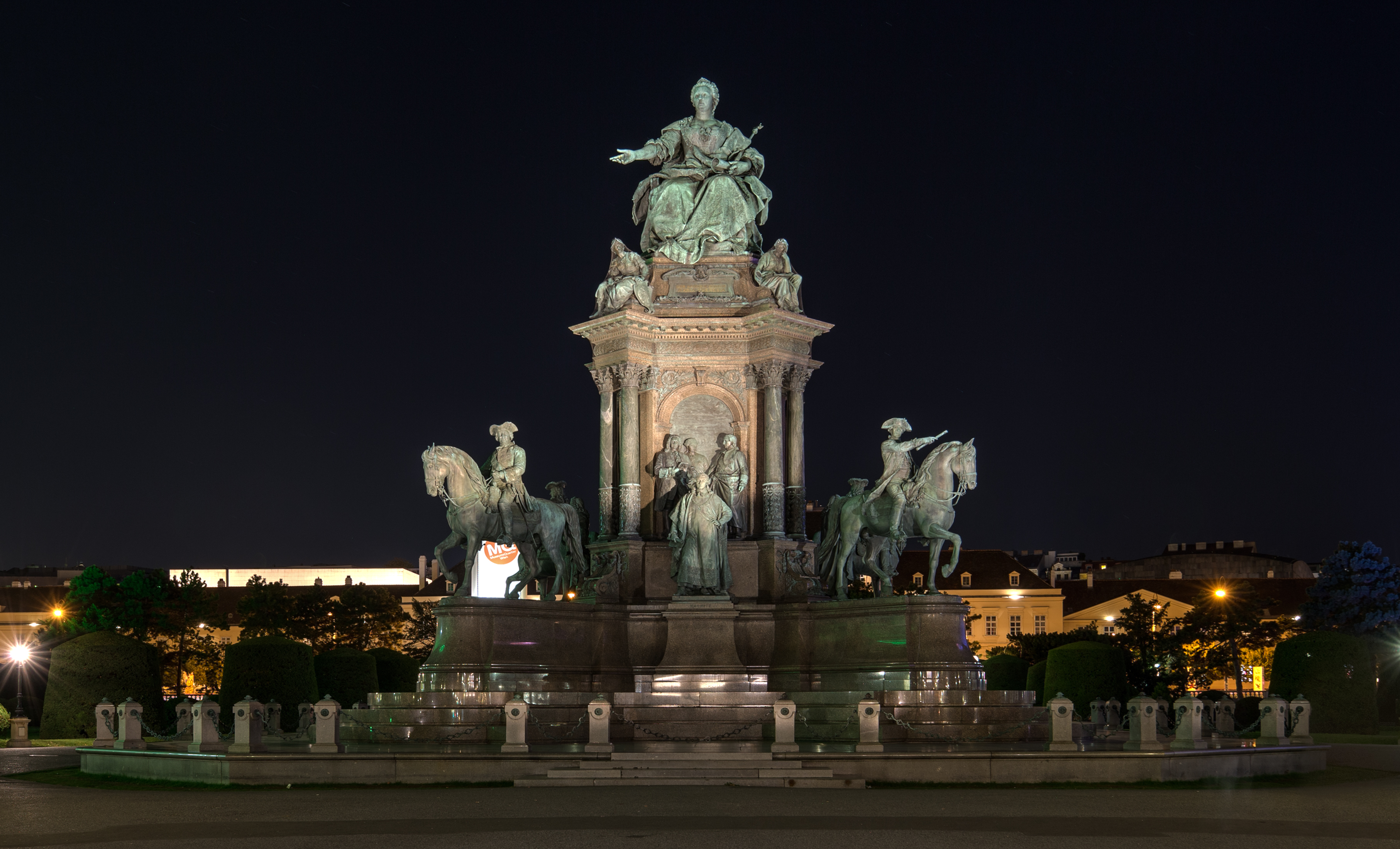 Maria-Theresia-square, Maria-Theresia monument, artist: Kaspar von Zumbusch (errected 1874-1888)